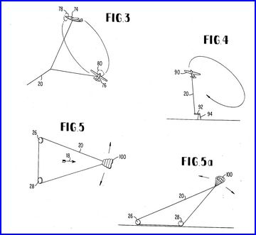 Crosswind kite power schemes taught in patent that has teachings that are now in public domain for use by the kite energy systems community and all others.